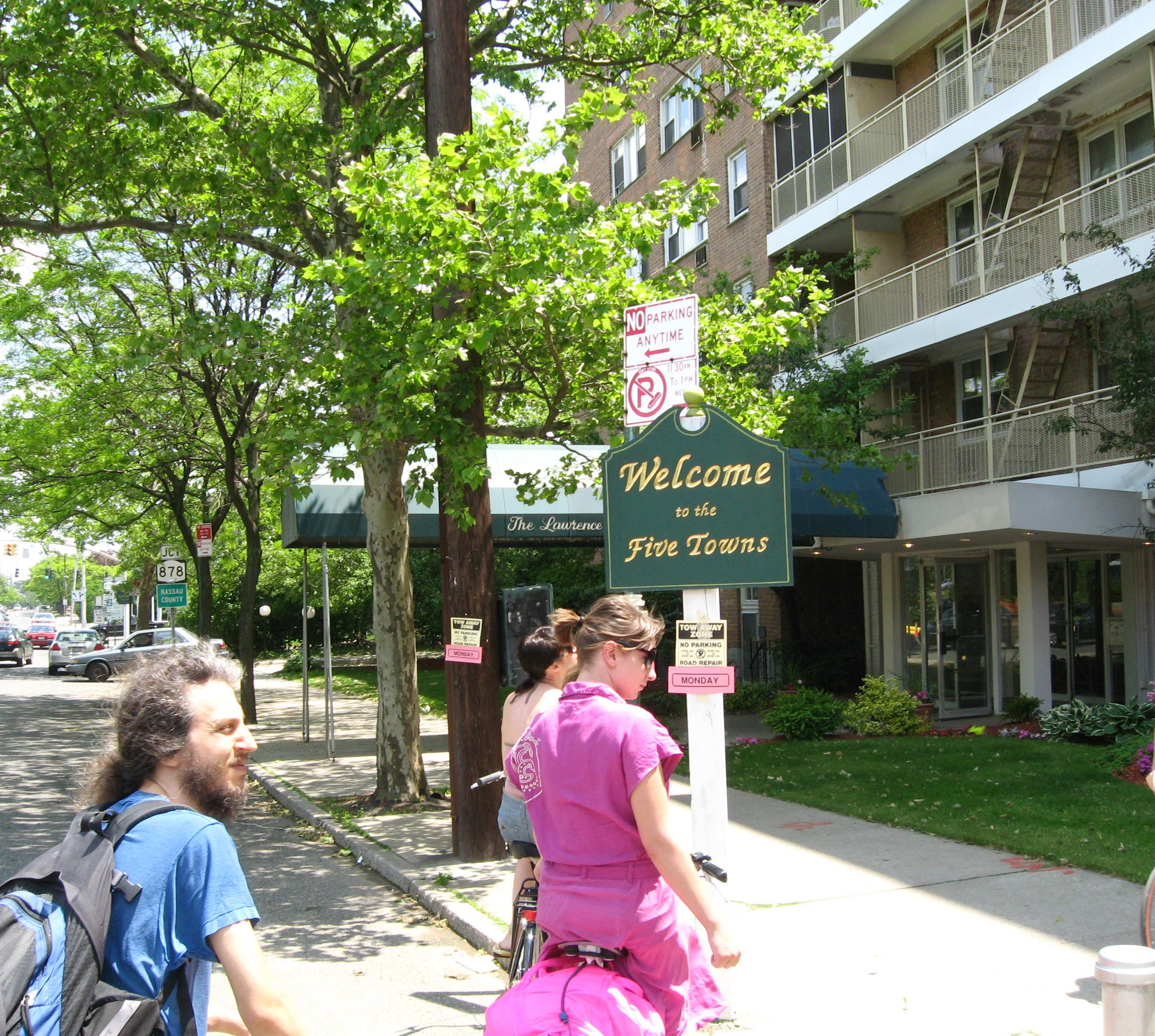 Looking east as European visitors contemplate whether to leave Far Rockaway and visit Five Towns on a sunny early afternoon